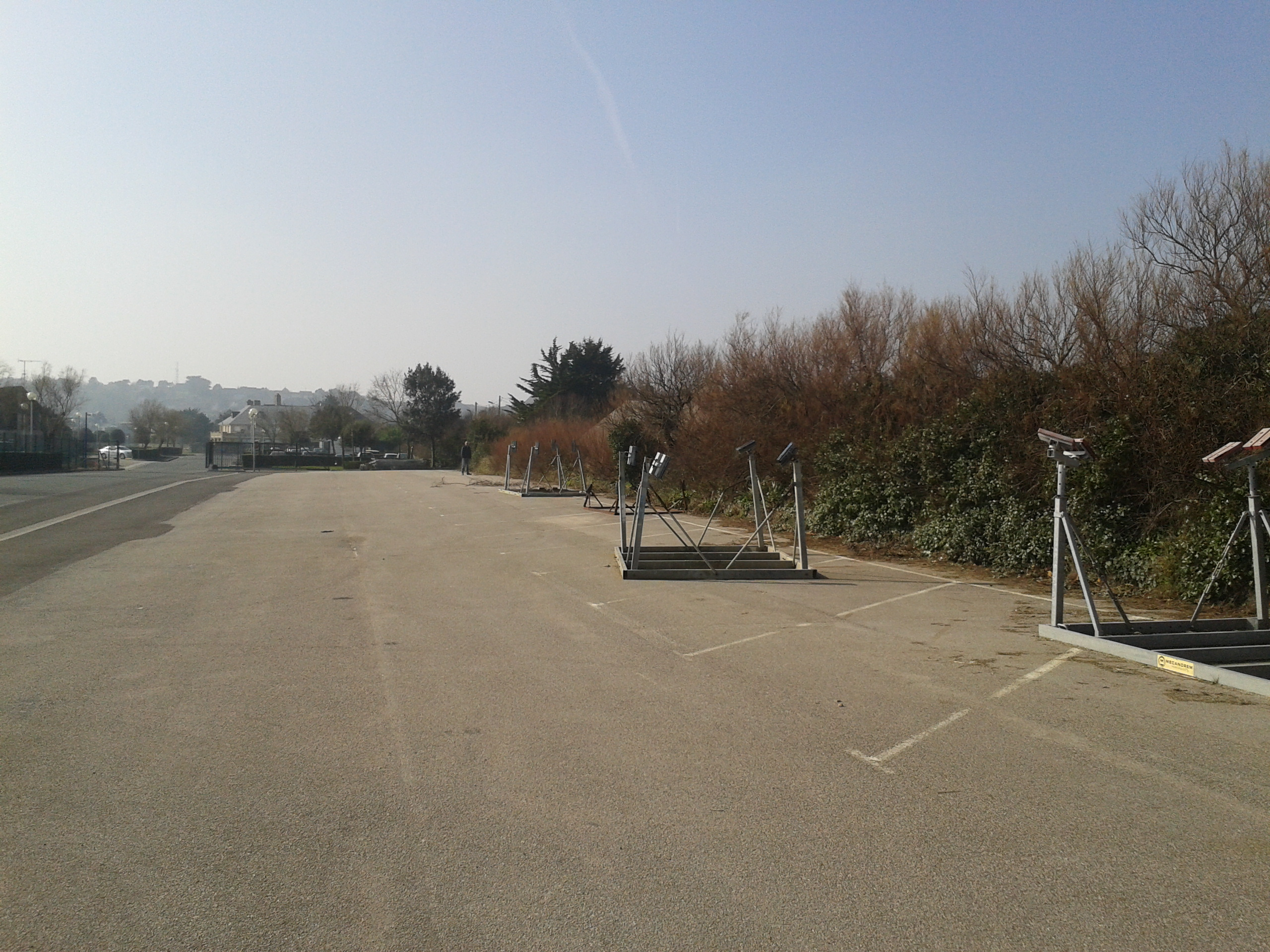 Emplacement des futurs racks du port à sec de Carteret